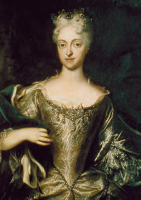 In what is believed to be the oldest painting of the Wittelsbach Blue, Maria Amalia’s bridal portrait shows the large blue diamond as the centerpiece in her hair ornament. Detail from a painting by Frans van Stampart, 1722; courtesy of Lippold von Klencke, Castle Hämelschenburg.